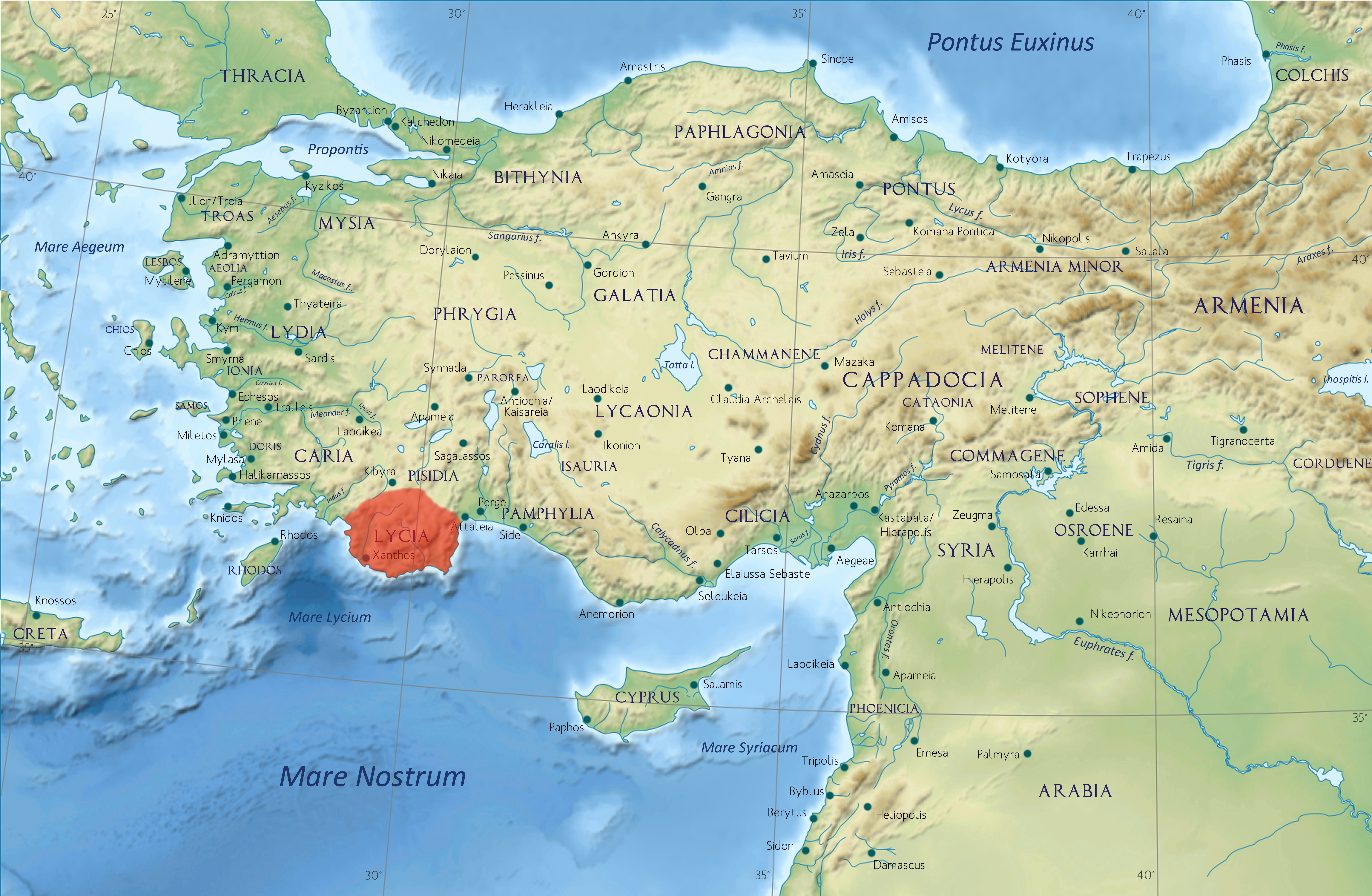 Map of Lycia